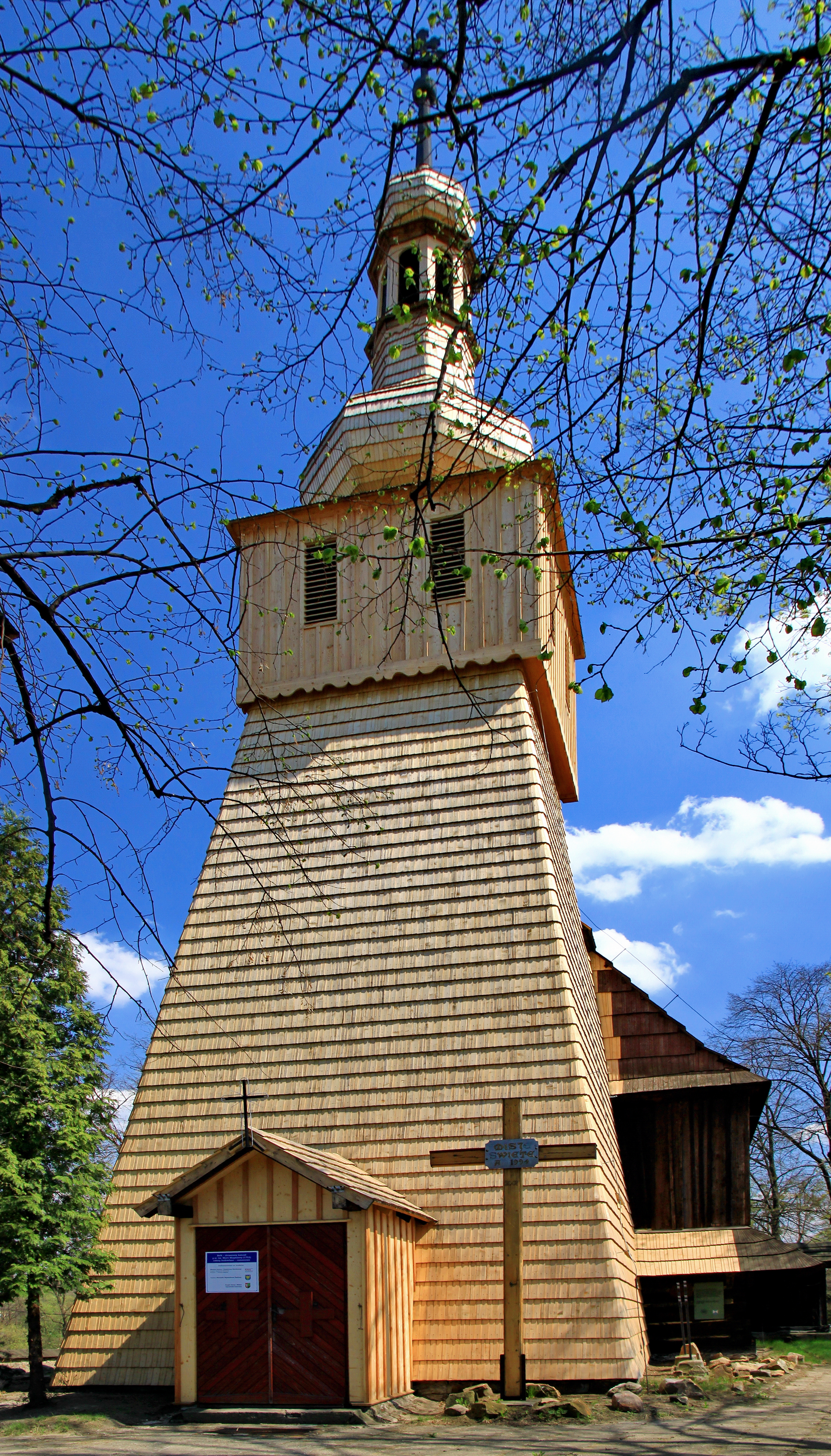 Bełk, Church of Saint Mary Magdalene, build in 1745